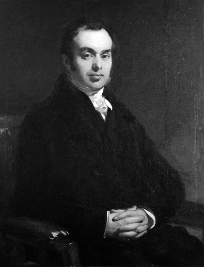 Portrait of Thomas Shapter in the Royal Devon and Exeter Hospital.